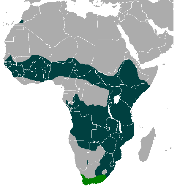 The range of Leptailurus serval, based on version sourced from IUCN Red List. Darker green: extant (resident). Brighter green: extinct.